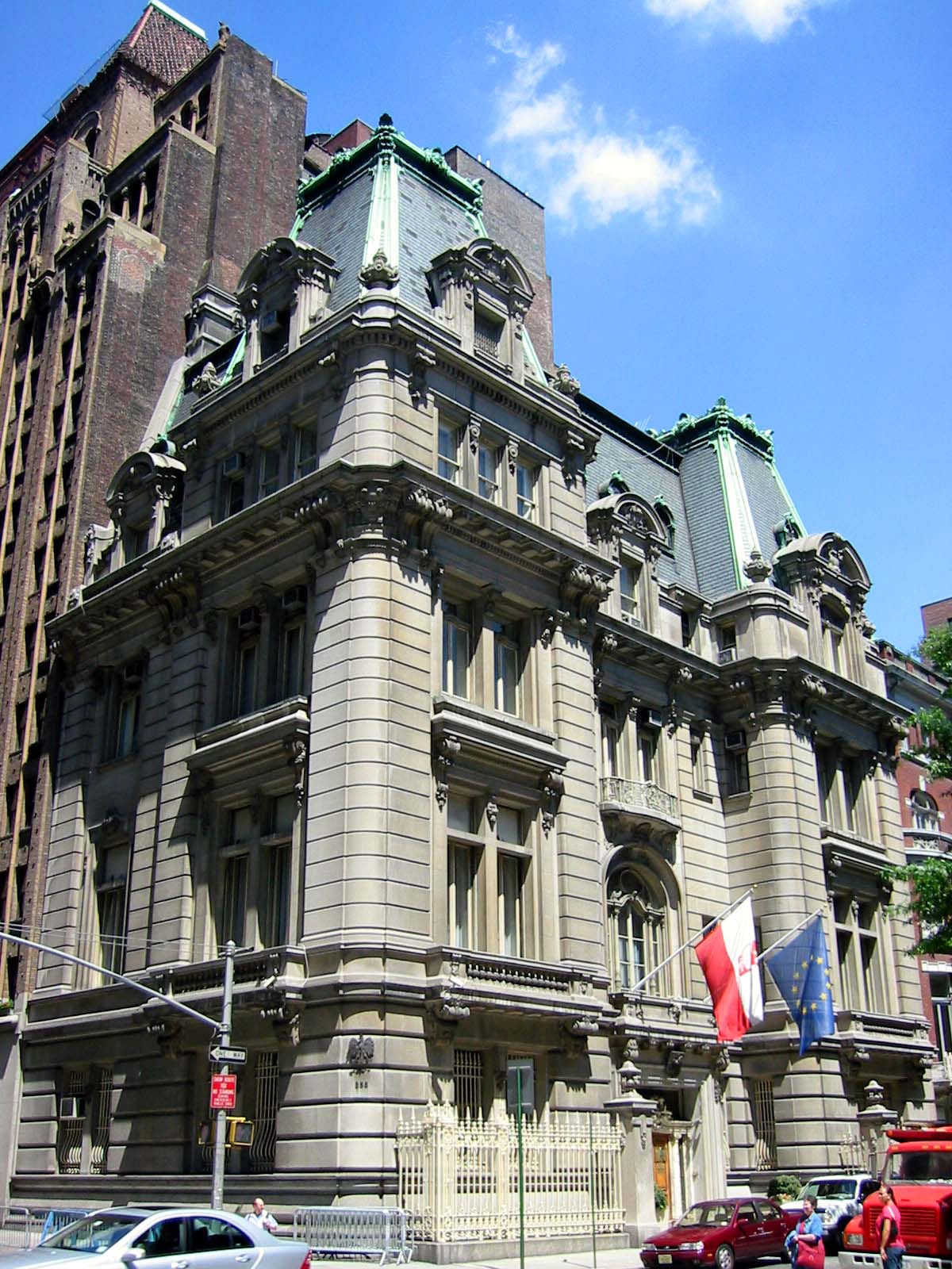 Consulate General of the Republic of Poland at Madison Avenue and 37th Street in Manhattan. See also File:Polish UN Embassy 9E66 jeh.JPG.